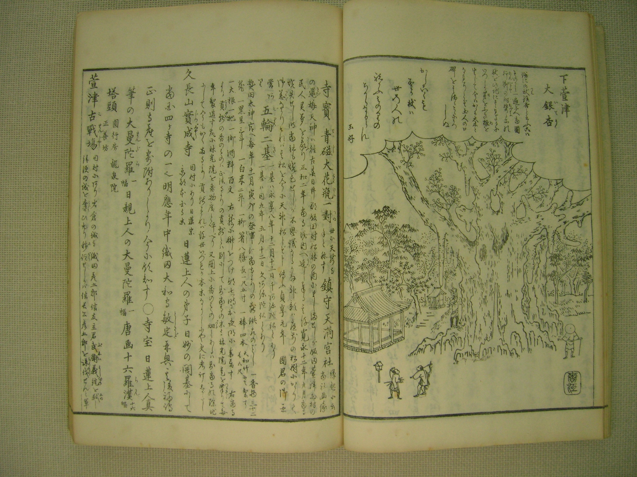 Owari meisho zue ("Chorography of Owari Province"), Volume 7, published in 1844, displayed at the Nagoya City Museum in Nagoya City, Aichi Prefecture, Japan